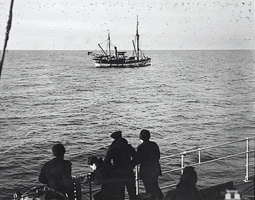 Norwegian polar vessel Norvegia, ex. Vesleper (1919).